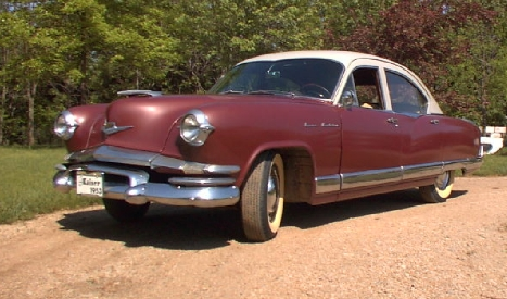 1953 Kaiser Manhattan